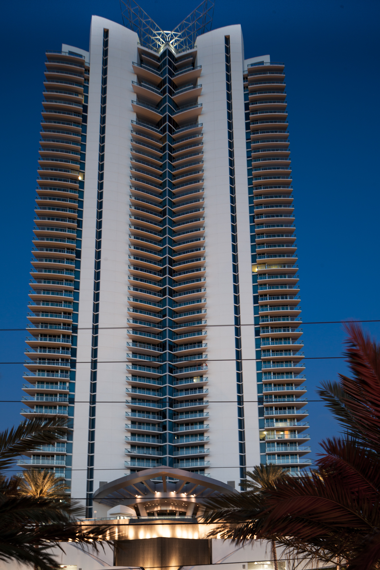 Handheld... did my very best! Camera: Canon EOS 5D Mark II Lens: TS-E24mm f/3.5L II 5 sec at f/8.0 ISO: 100